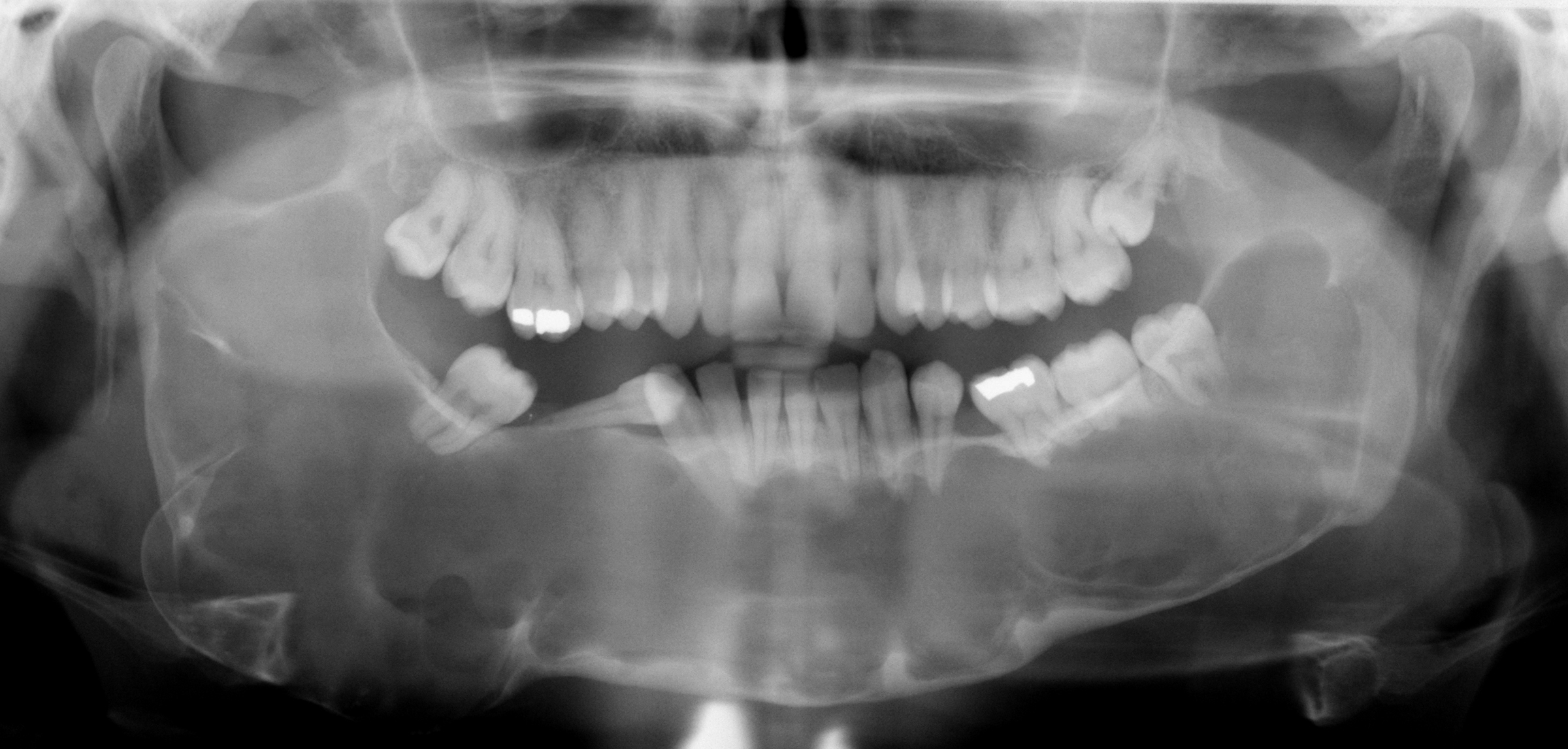 massive keratocystic odontogenic tumour (previously odontogenic keratocyst) with impacted wisdom teeth superficial to lesion